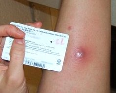 My leg. The top red thing is a methicillin-resistant staph infection. (This was discovered after a culture done when it wasn't responding to antibiotics.) I'm not sure if the other bug-bite-looking things were also MRSAs or if they were just bug bites. I'm holding up a credit-card-sized phone card for a size reference.